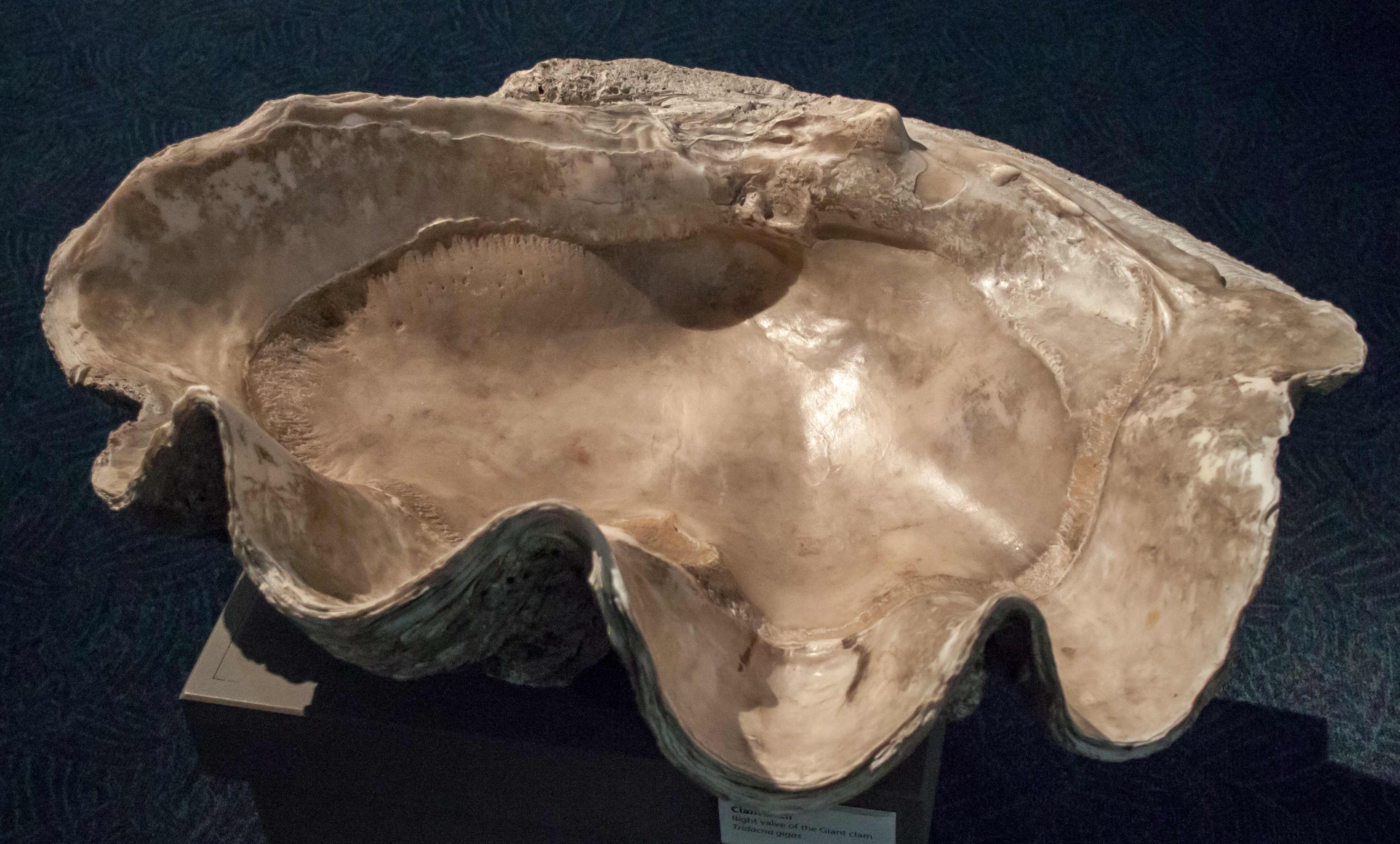 Right valve of the Giant clam shell (Tridacna gigas)label QS:Len,"Right valve of the Giant clam shell (Tridacna gigas)"label QS:Lhu,"Tridacna gigas óriáskagyló"